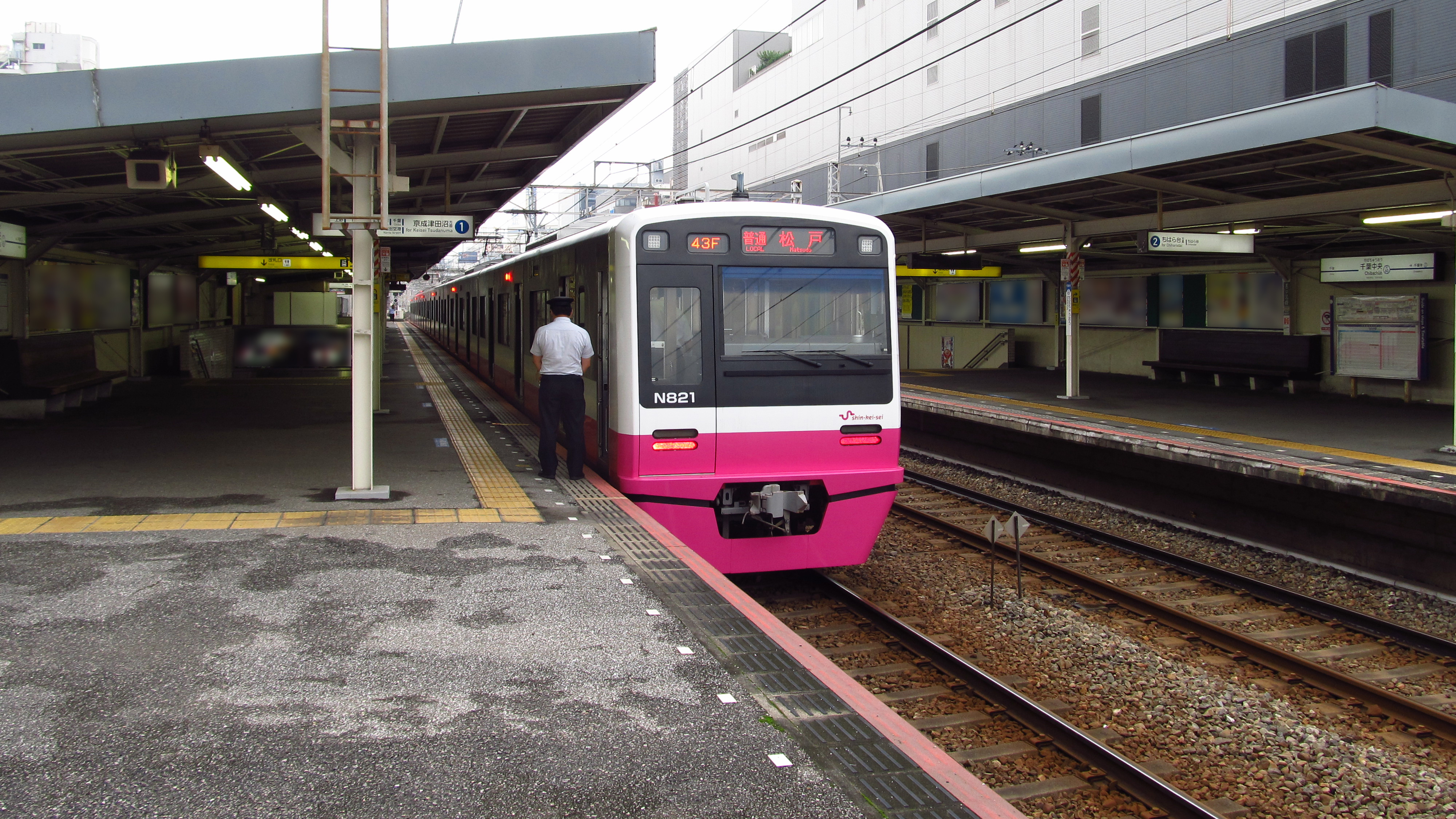 The platforms at Chiba-Chūō Station on the Keisei Chiba Line in Chiba city, Chiba prefecture, Japan